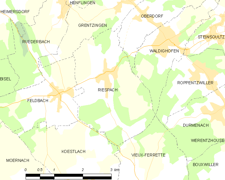 Map of French municipality